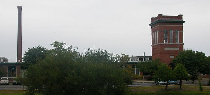 Wide view of the old factory of the Plymouth Cordage Company, which now serves as the Cordage Commerce Center. The Cordage Tower and the company smokestack are visible.